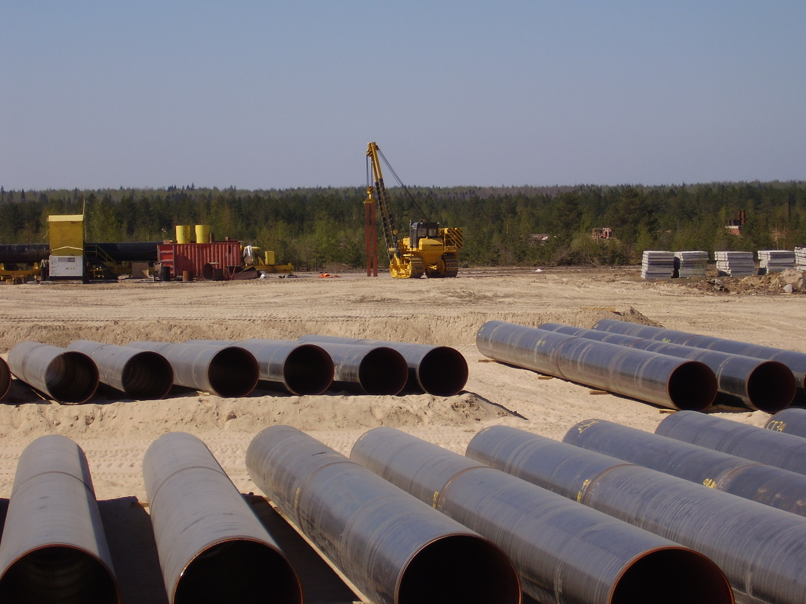 Natural gas lines are built Veštševon station in 2008.